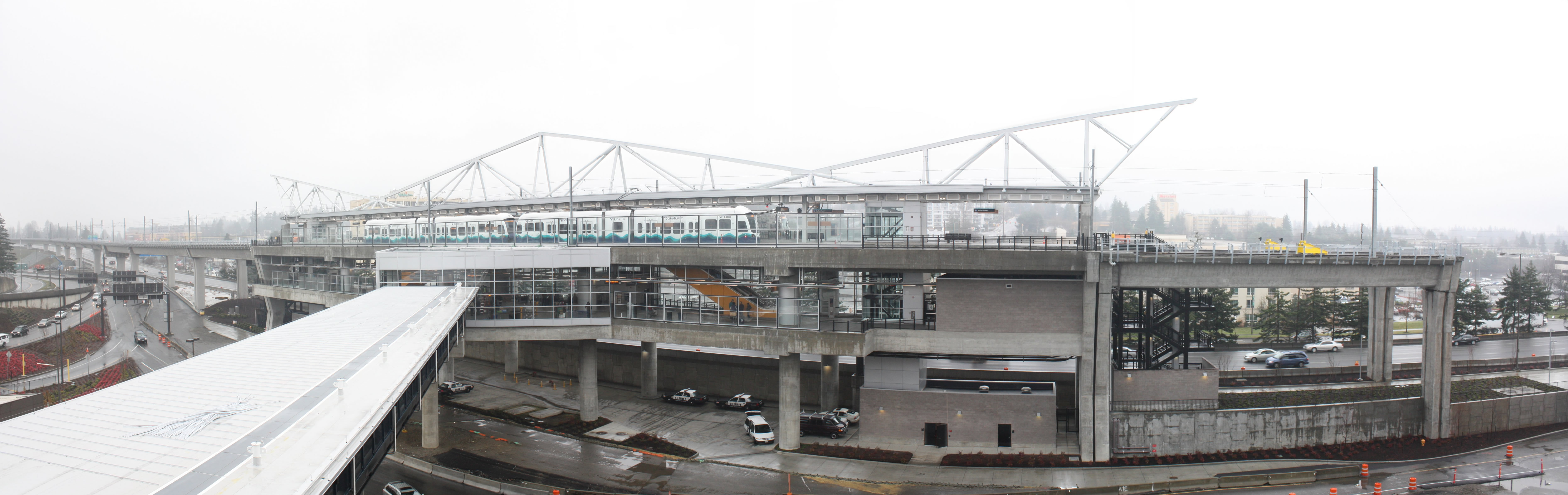 A wide panorama shot of Central Link light rail's SeaTac/Airport Station, taken on opening day.